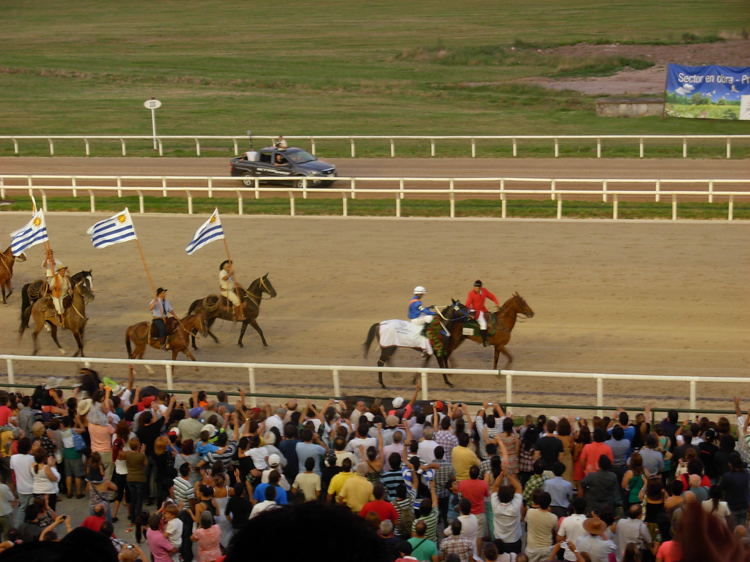 Desfile triunfal de Impérrito luego de ganar el Gran Premio José Pedro Ramírez 2013 en el Hipódromo de Maroñas en Montevideo, Uruguay